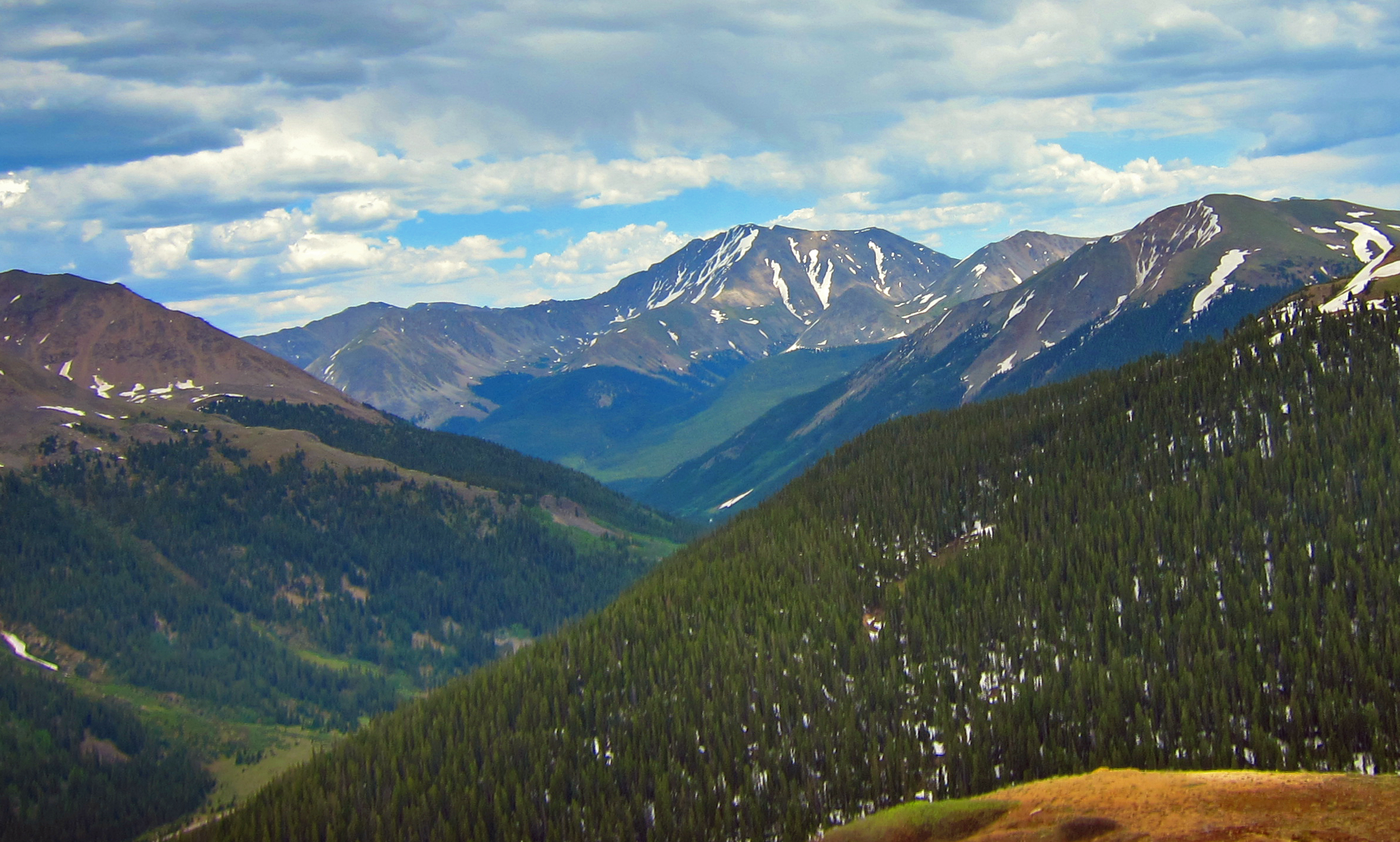 View of La Plata Peak, a Colorado 14er, from Independence Pass to its north